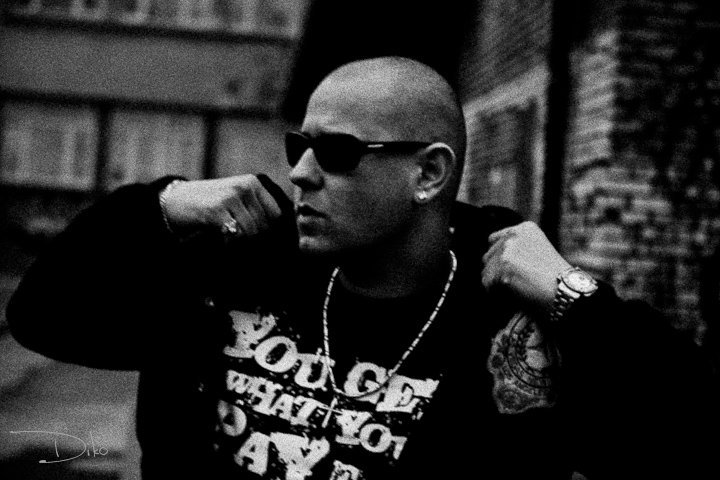 Fang during a photo shoot in 2011.